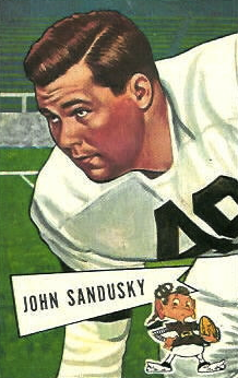 John Sandusky, American football tackle, on a 1952 Bowman football card